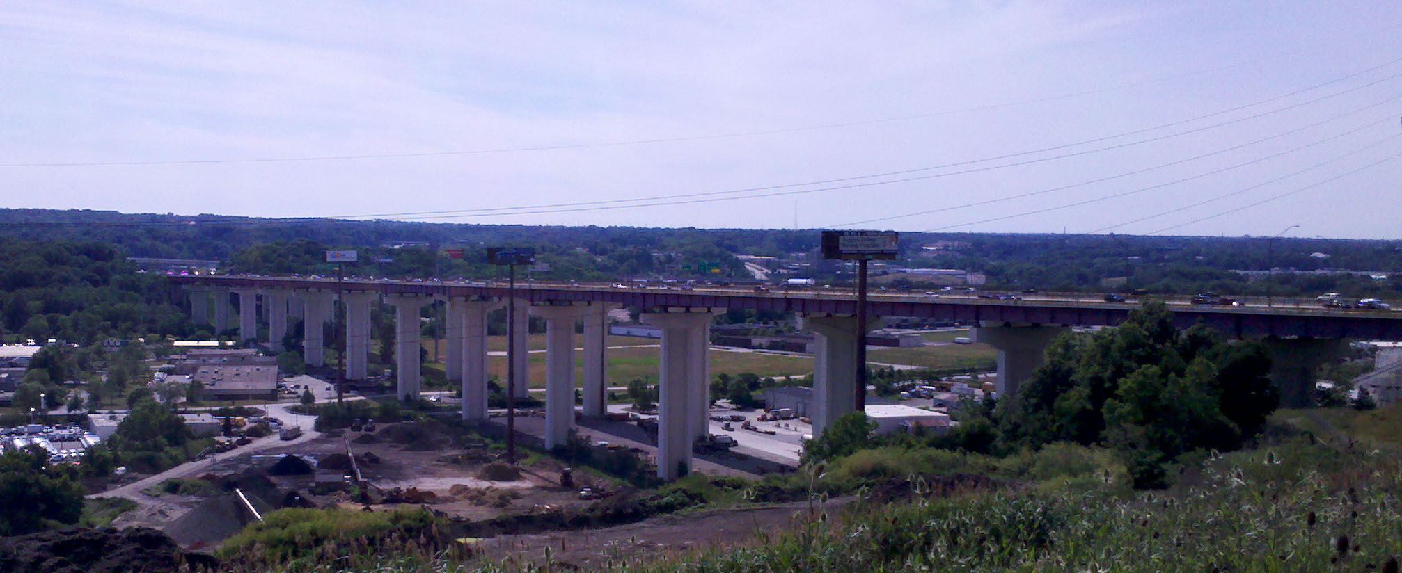 Looking west at the Valley View Bridge